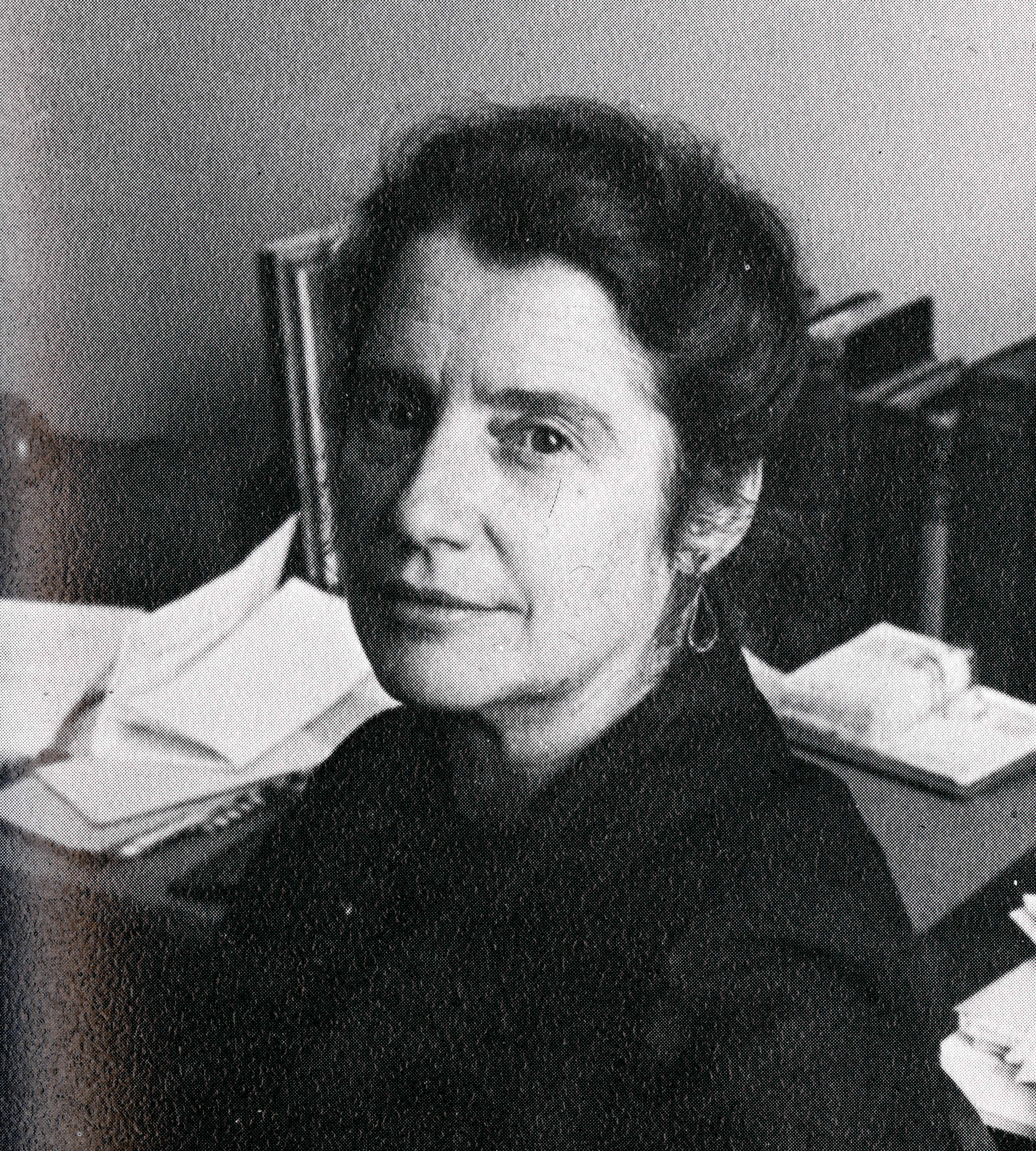 Dr. Helen H. Bacon, professor of classics at Barnard College, in the 1966 Barnard College Mortarboard (yearbook), page 27